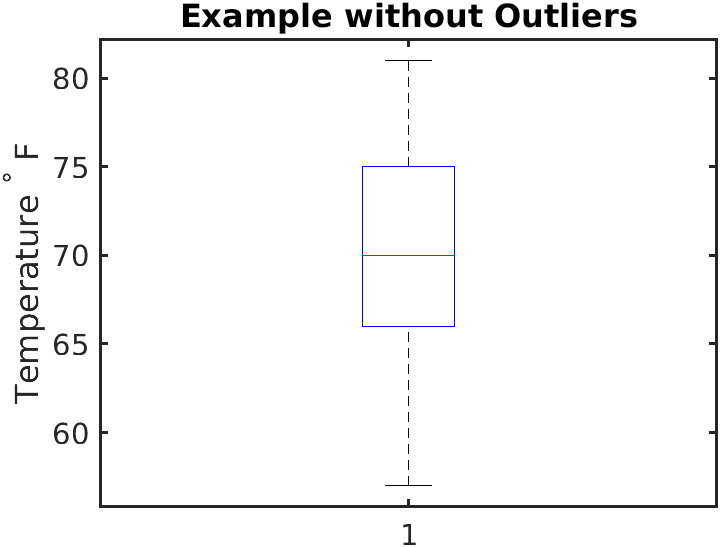 An example of a boxplot with no outliers